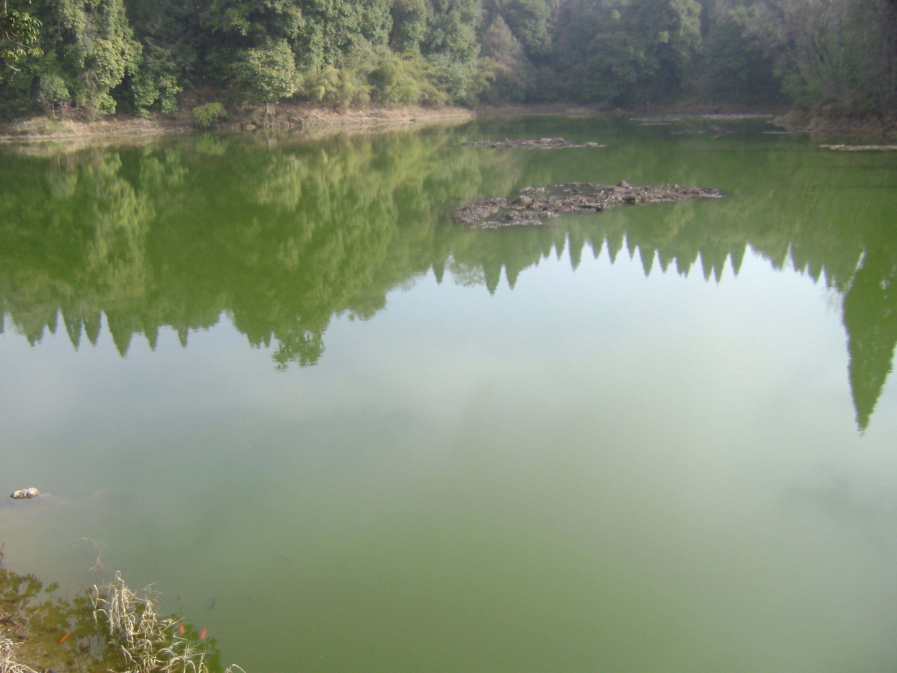 Mai Pokhari Ilam.